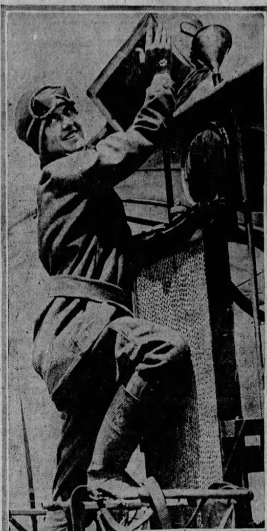 Helen Hodge, a student at the Redwood City Aviation School in 1916, fills the gas tank of an airplane. The school was run by Frank Bryant and Silas Christofferson, members of the Early Birds of Aviation. Hodge became one of the few female students.